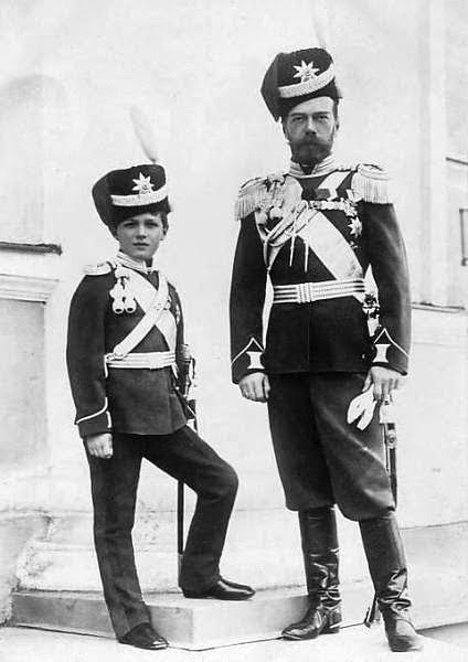 Emporer Nicholas II of Russia and Tsarevich Alexei Nikolaievich of Russia wearing the parade uniform of the 1st Ural Sotnia Squadron of the Combined Cossack Guards’ Regiment. The stair in front of this Alexander Palace wing was used to hide the fact that the Tsarevich still couldn’t bend his left knee after his most severe hemophiliac bout in Spała.